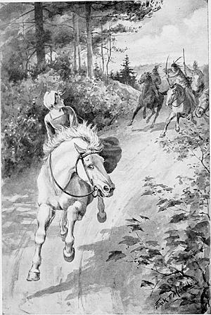 Title: A lass of Dorchester Year: 1904 (1900s) Authors: Barnes, Annie Maria, b. 1857 Subjects: Publisher: Boston, Lee and Shepard View Book Page: Book Viewer About This Book: Catalog Entry View All Images: All Images From Book Click here to view book online to see this illustration in context in a browseable online version of this book. Text Appearing Before Image: ' Text Appearing After Image: ON Fi-KW HECTOR, SEEMING SCARCELY TO TOUCH THE EARTH. Page 328. A LASS OF DORCHESTER BY ANNIE M. BARNES Author of 4«Little Betty Blew, and The Laurel Token ILLUSTRATED BY FRANK T. MERRILLlassofdorchester00barn